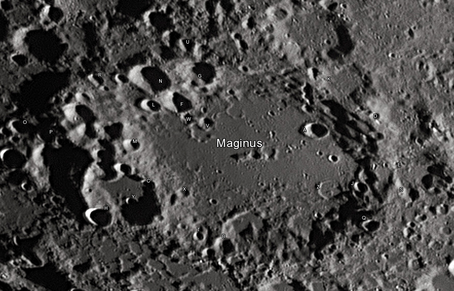 Maginus lunar crater as seen from Earth with satellite craters labeled